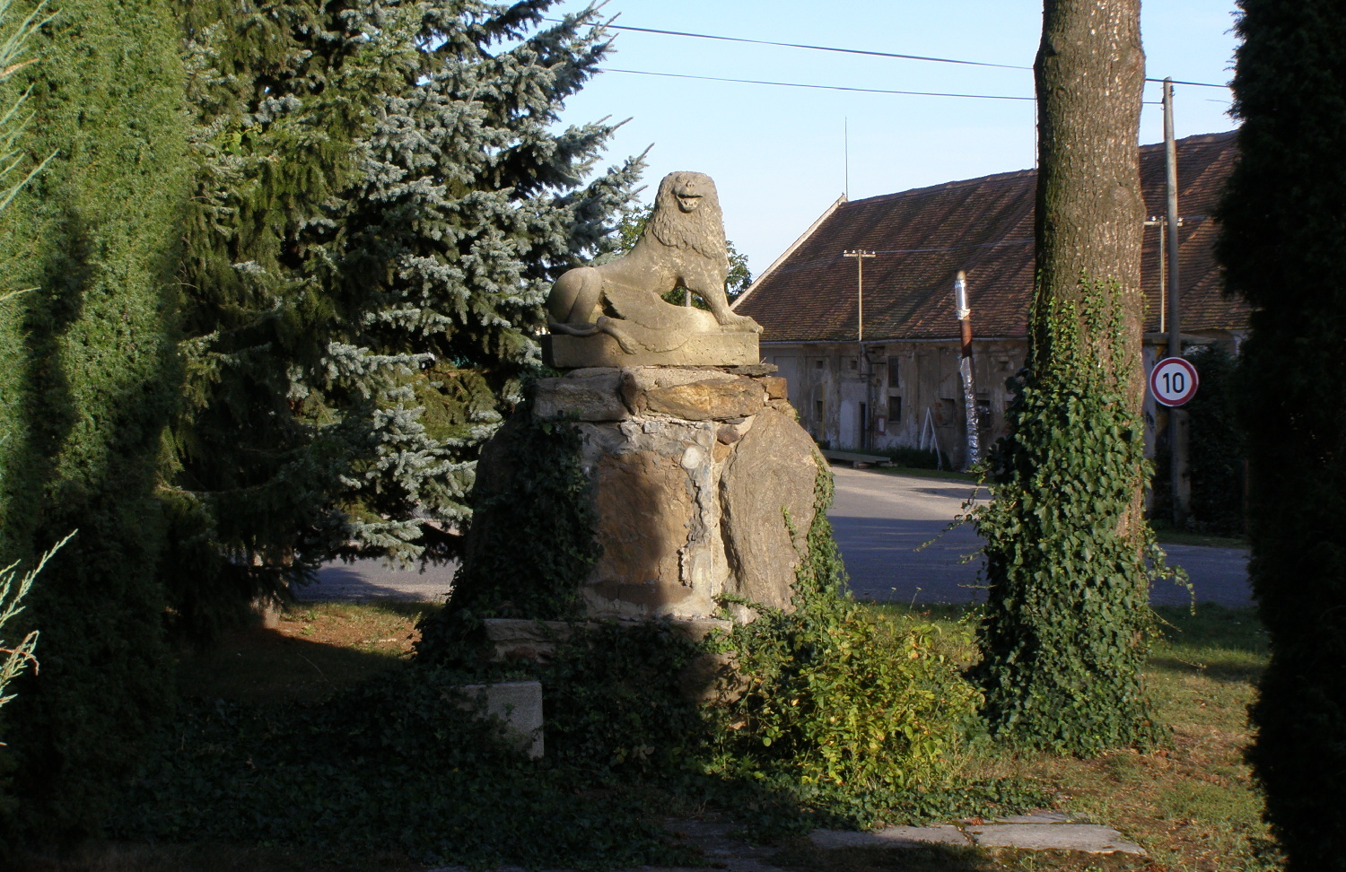 Lesonice village (Třebíč district). Monument on the village square